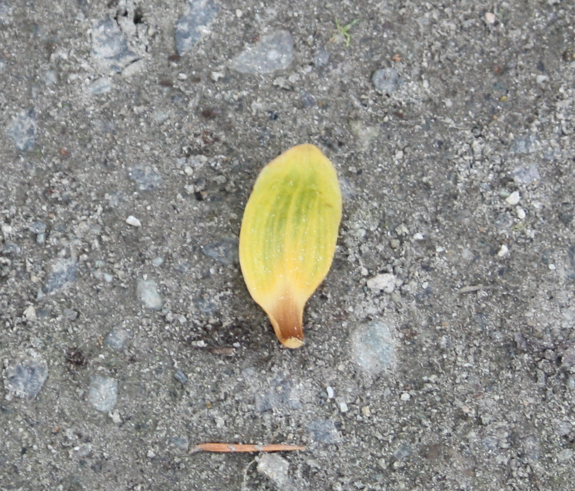 Photo of fallen petal from Liriodendron chinense on gravel path at Finnerty Gardens, University of Victoria.